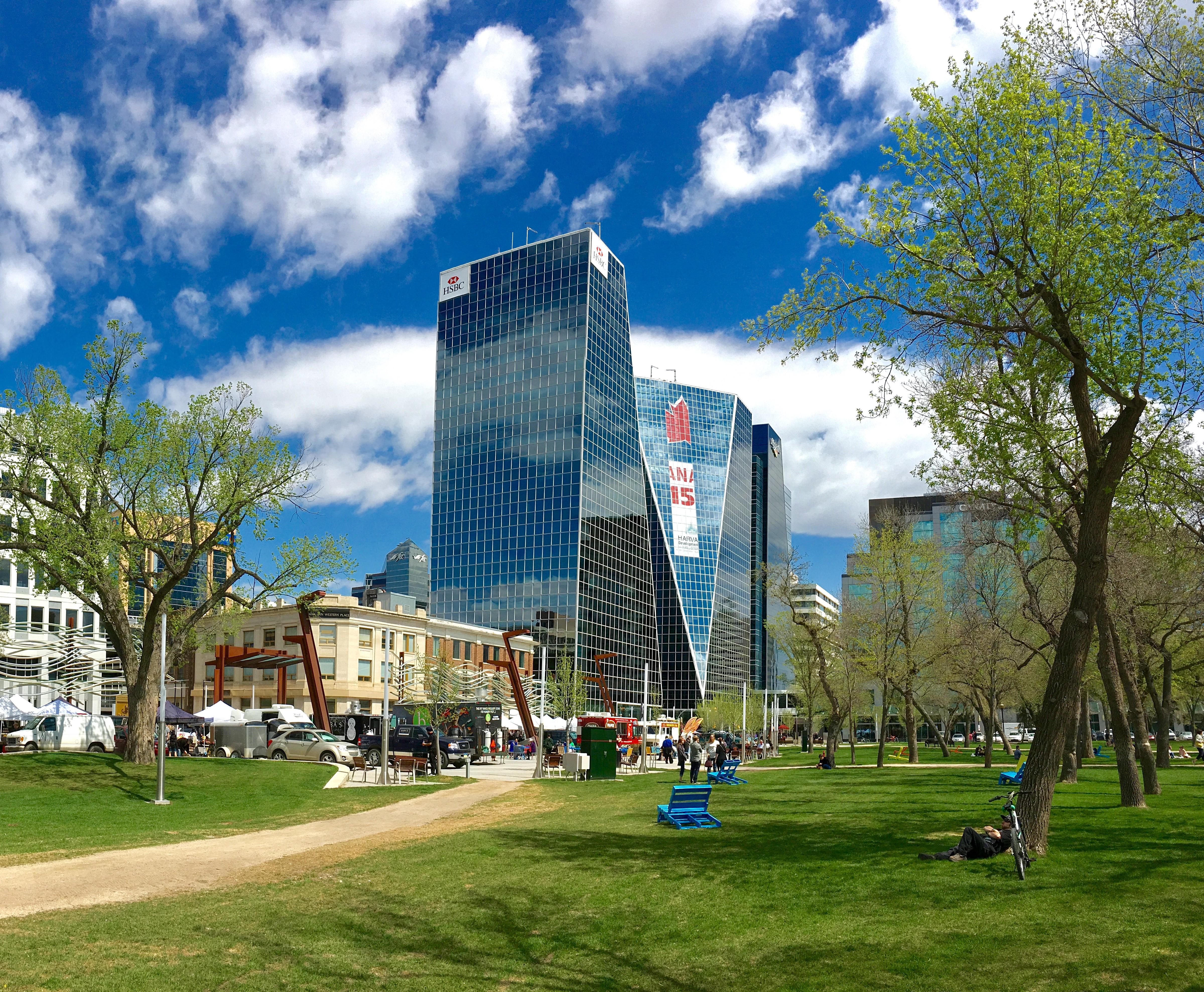 towers in downtown Regina, Saskatchewan